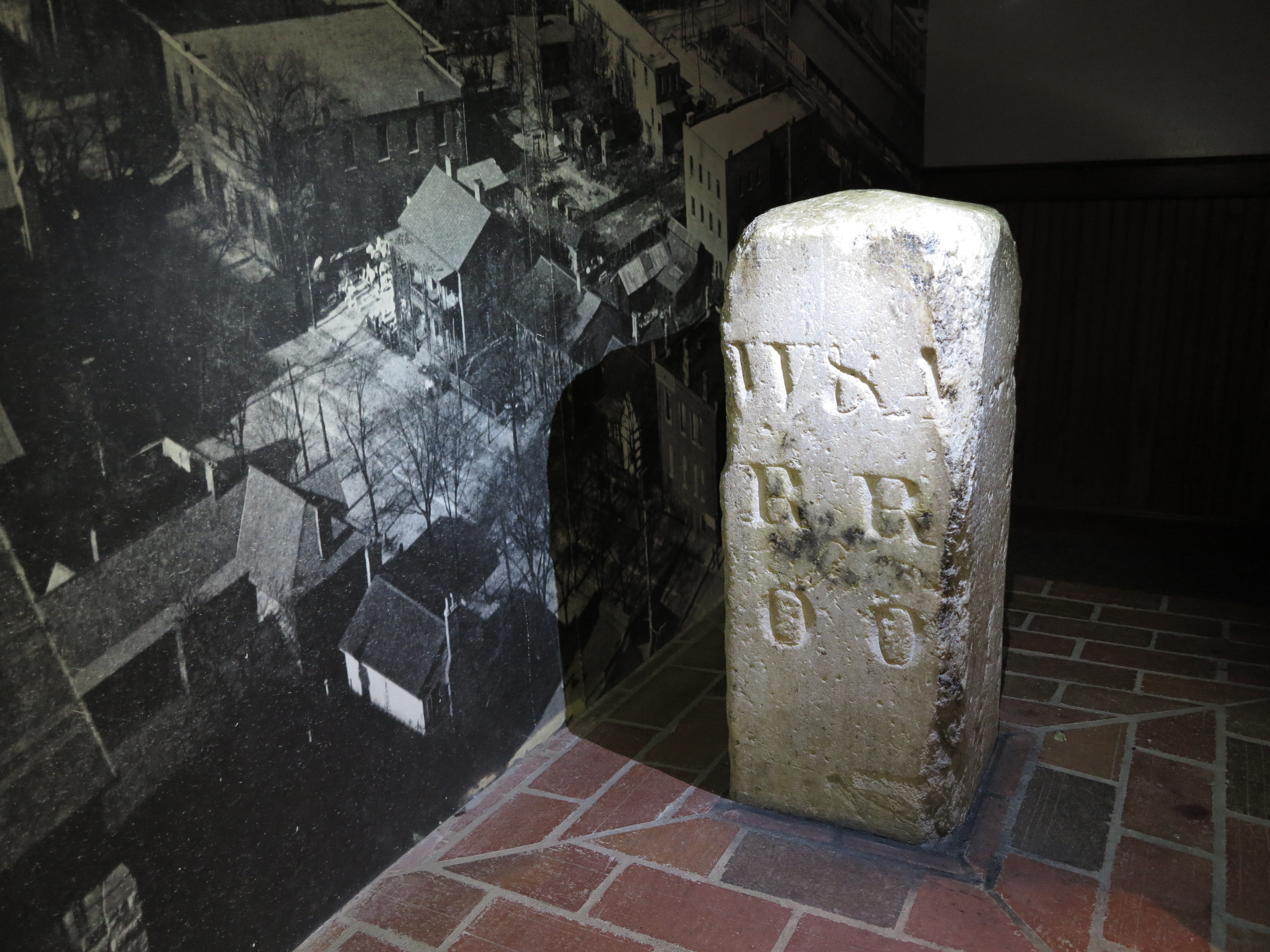 Marker for the terminus of the Western and Atlantic Railroad from Chattanooga, TN. The terminus is now known as Atlanta, GA.